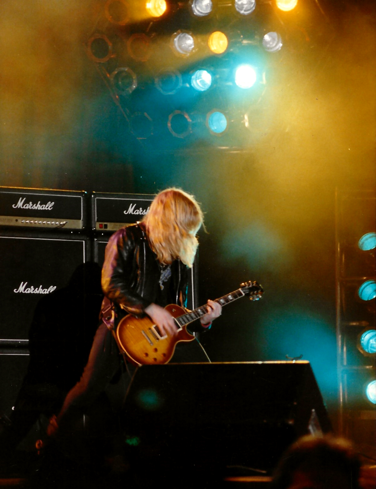 Buren Fowler performs with Drivin N Cryin at Chastain Park in 1992